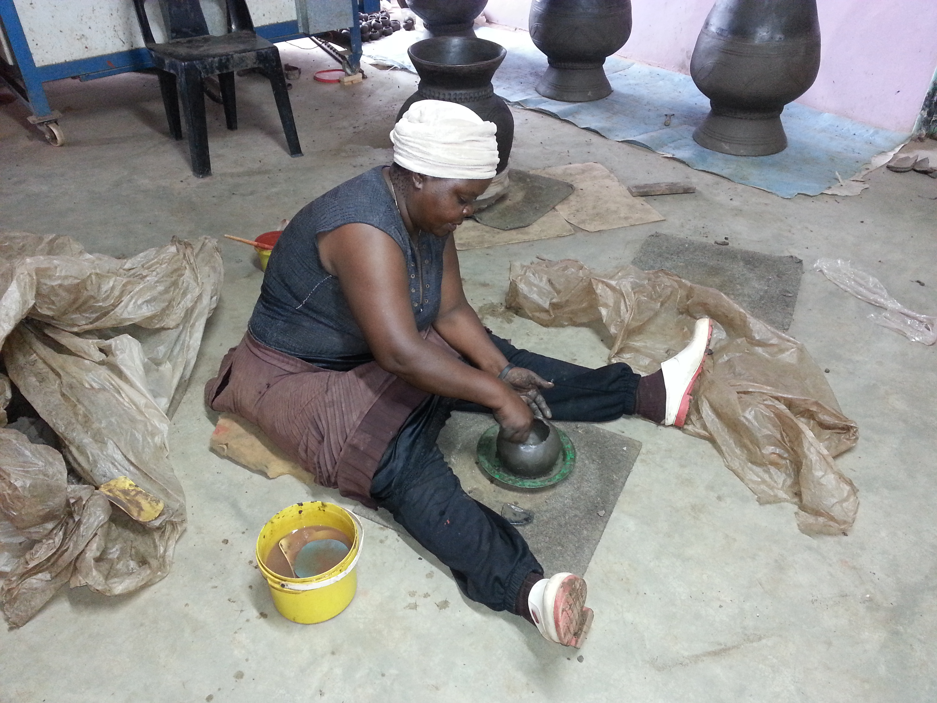 This is an image of "African people at work" from South Africa